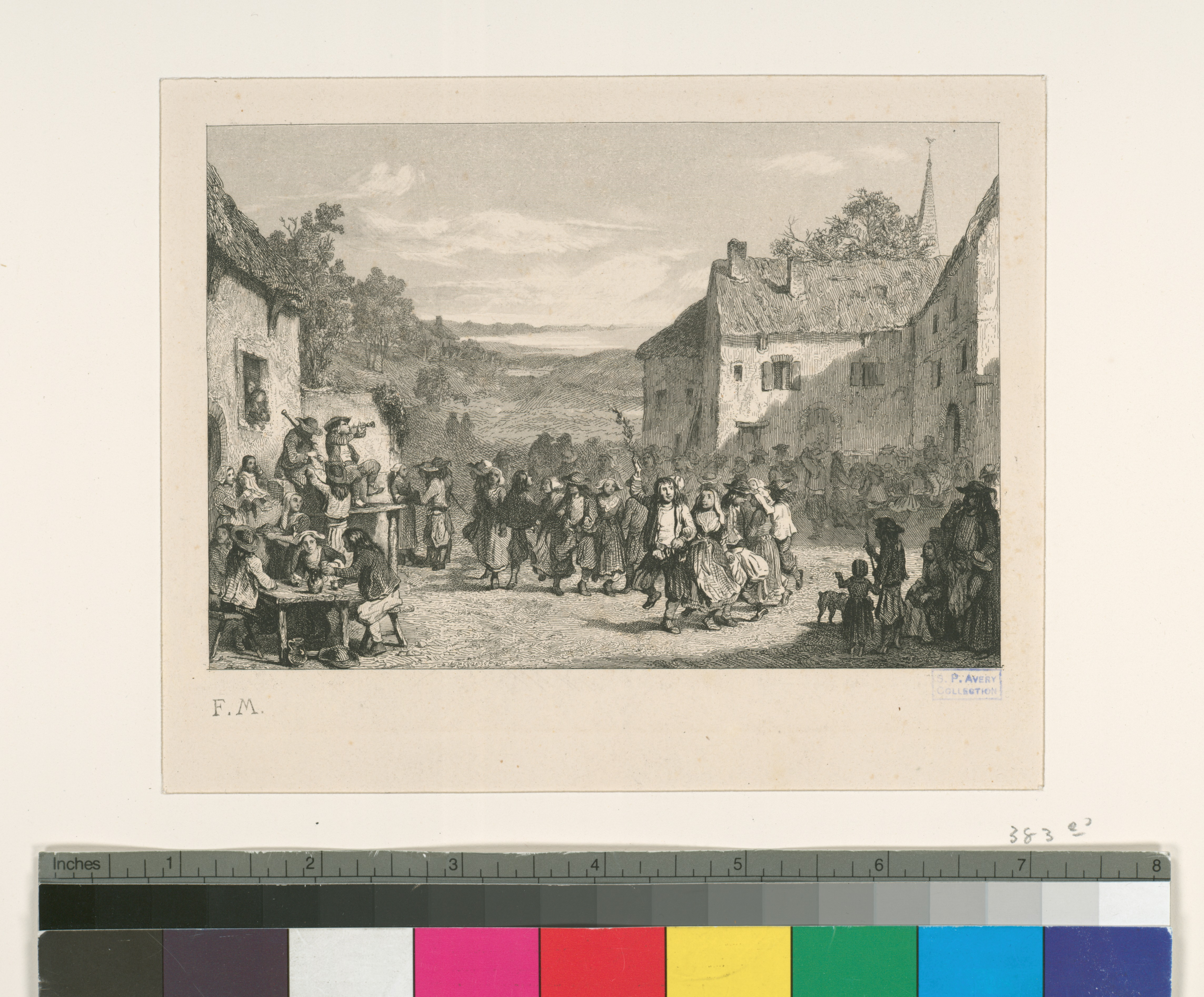 Titles and dates from L'Oeuvre de Ch. Jacque catalogue de ses eaux-fortes et pointes sèches / dressé par J.J. Guiffrey. Holdings checked in departmental copy of L'Oeuvre de Ch. Jacque catalogue de ses eaux-fortes et pointes sèches / dressé par J.J. Guiffrey. Forms part of Etchings and drypoints by Charles Jacque in Samuel Putnam Avery Collection. Illustration for Bretagne ancienne et moderne, by Pitre-Chevalier. Citation/Reference: G383[(II/II)] Print bears the mark of F. Masson (Lugt 1031).